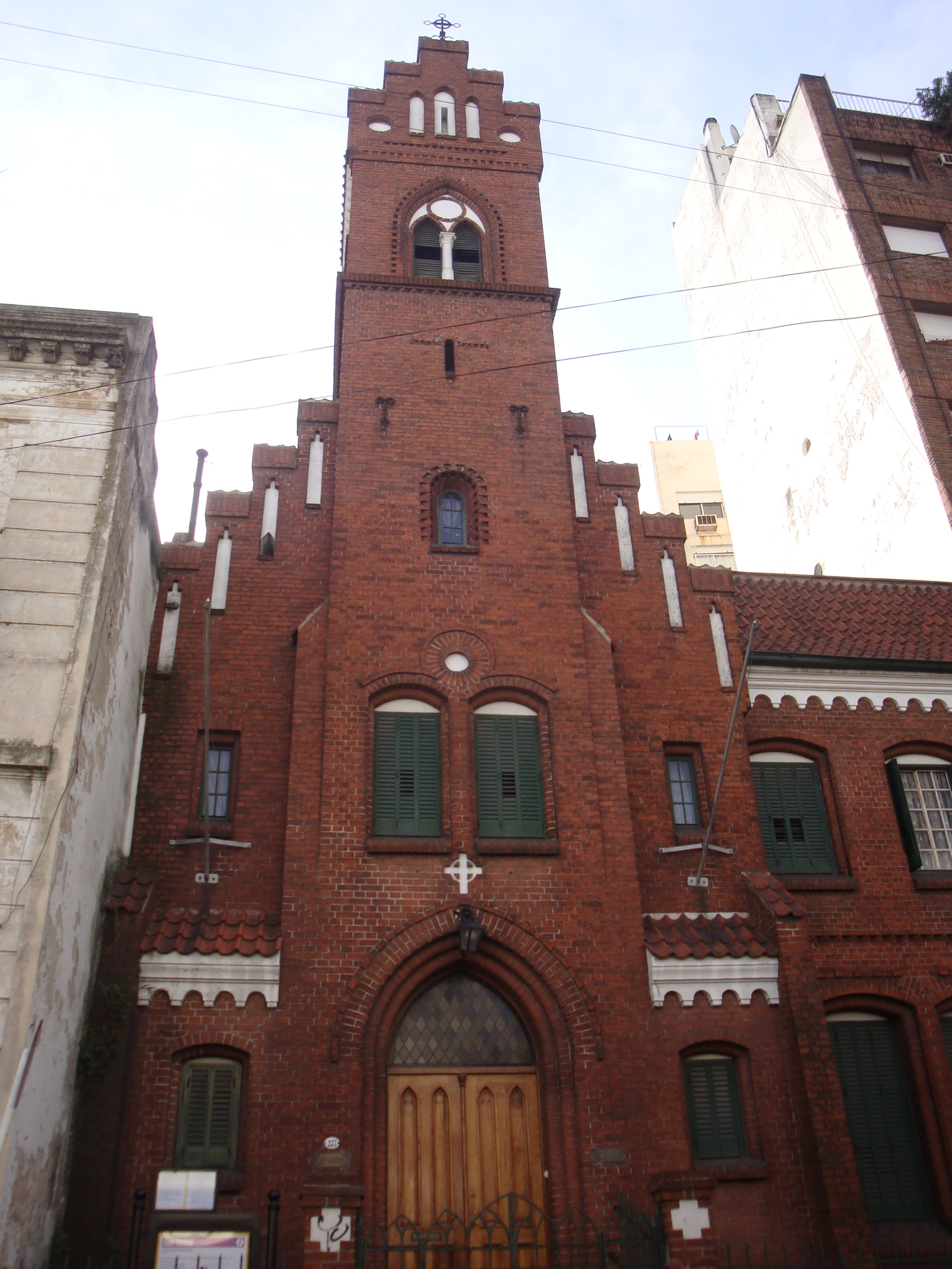 Danish Church, located on 257 Carlos Calvo Street, San Telmo, Buenos Aires. Designed by Rönnow & Bisgaard, the church was completed in 1931.